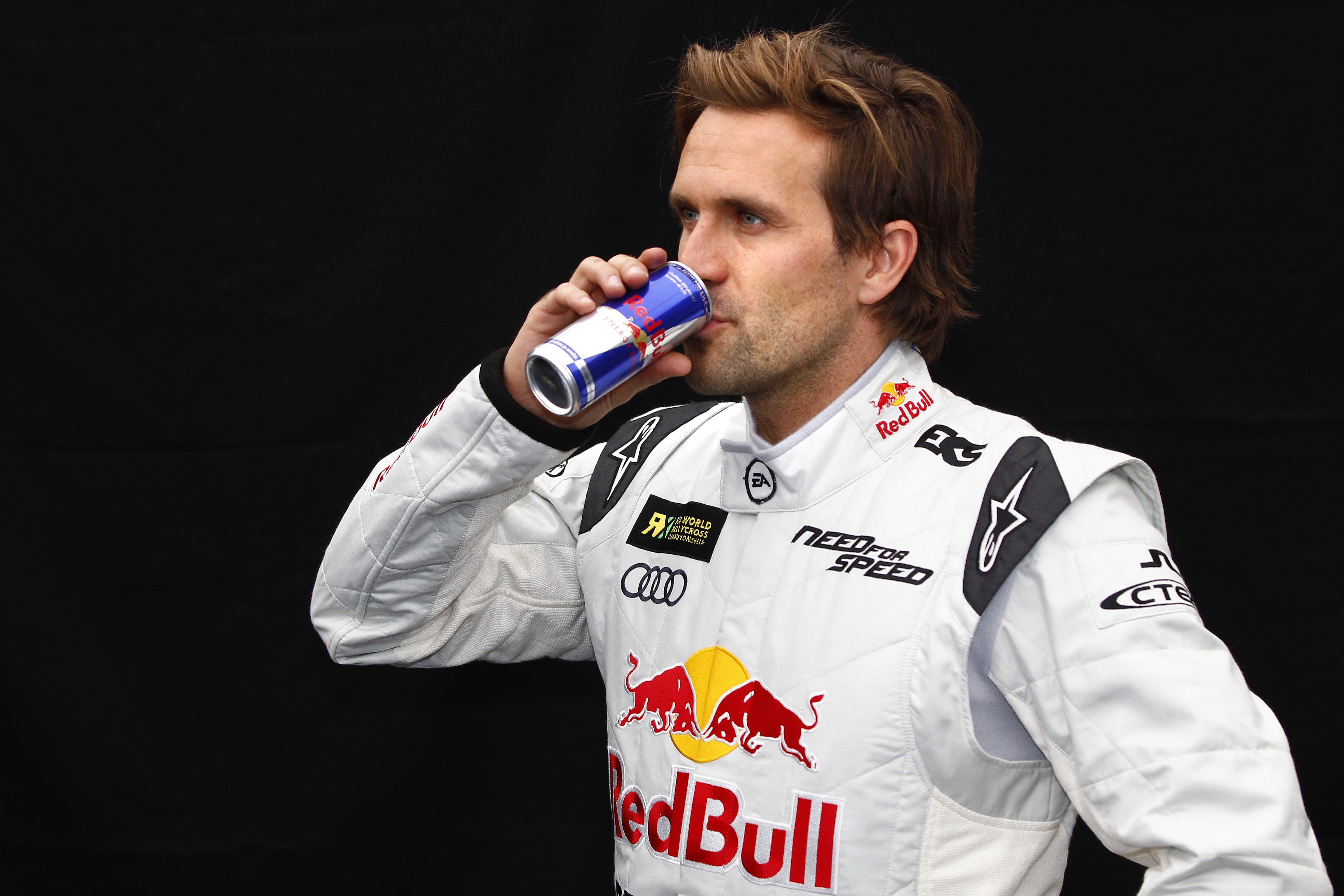 2014 FIA World Rallycross Championship Round 04 Kouvola, Finland 28th & 29th June 2014 Worldwide Copyright: EKS/McKlein